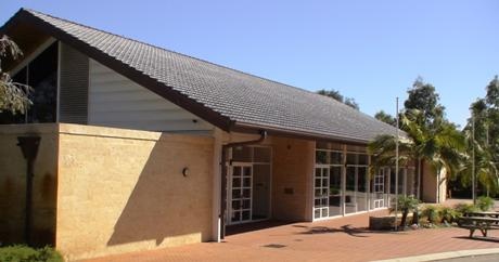 Hughs dinning hall, Aquinas College Perth, this building is the main dinning area for borders and school functions